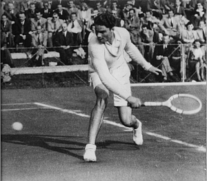 Photo of Ernst Buchholz